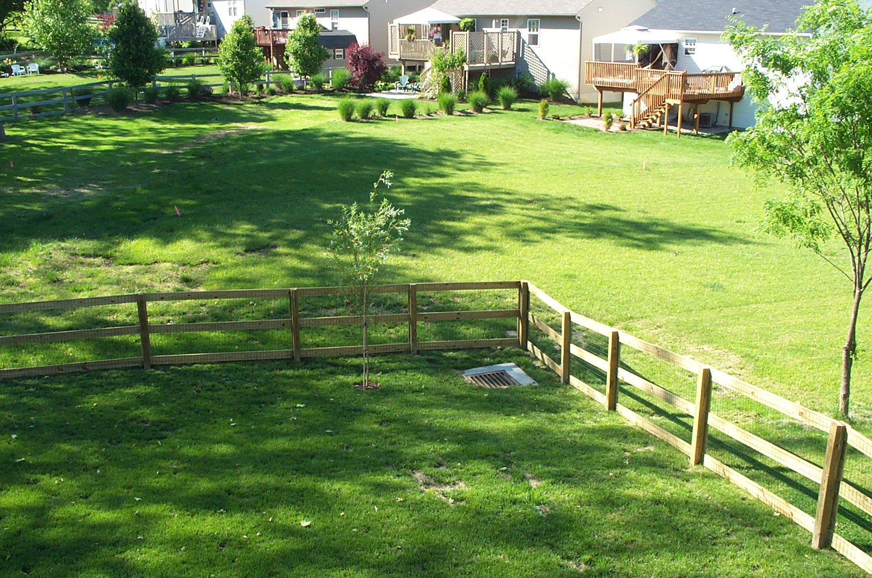 Typical suburban backyard "gardens" in the Eastern United States.